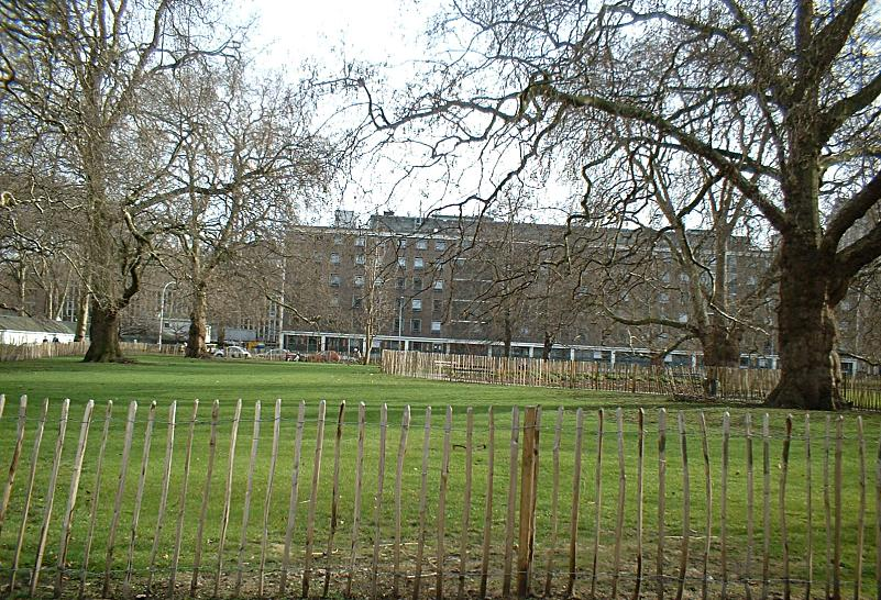 Brunswick Square, Bloomsbury, London. Taken March 04 by C Ford.